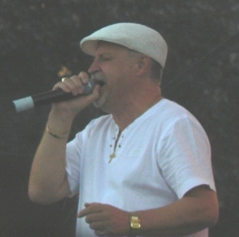 Yordan "Dancho" Karadjov - singer of Bulgarian rock band Signal